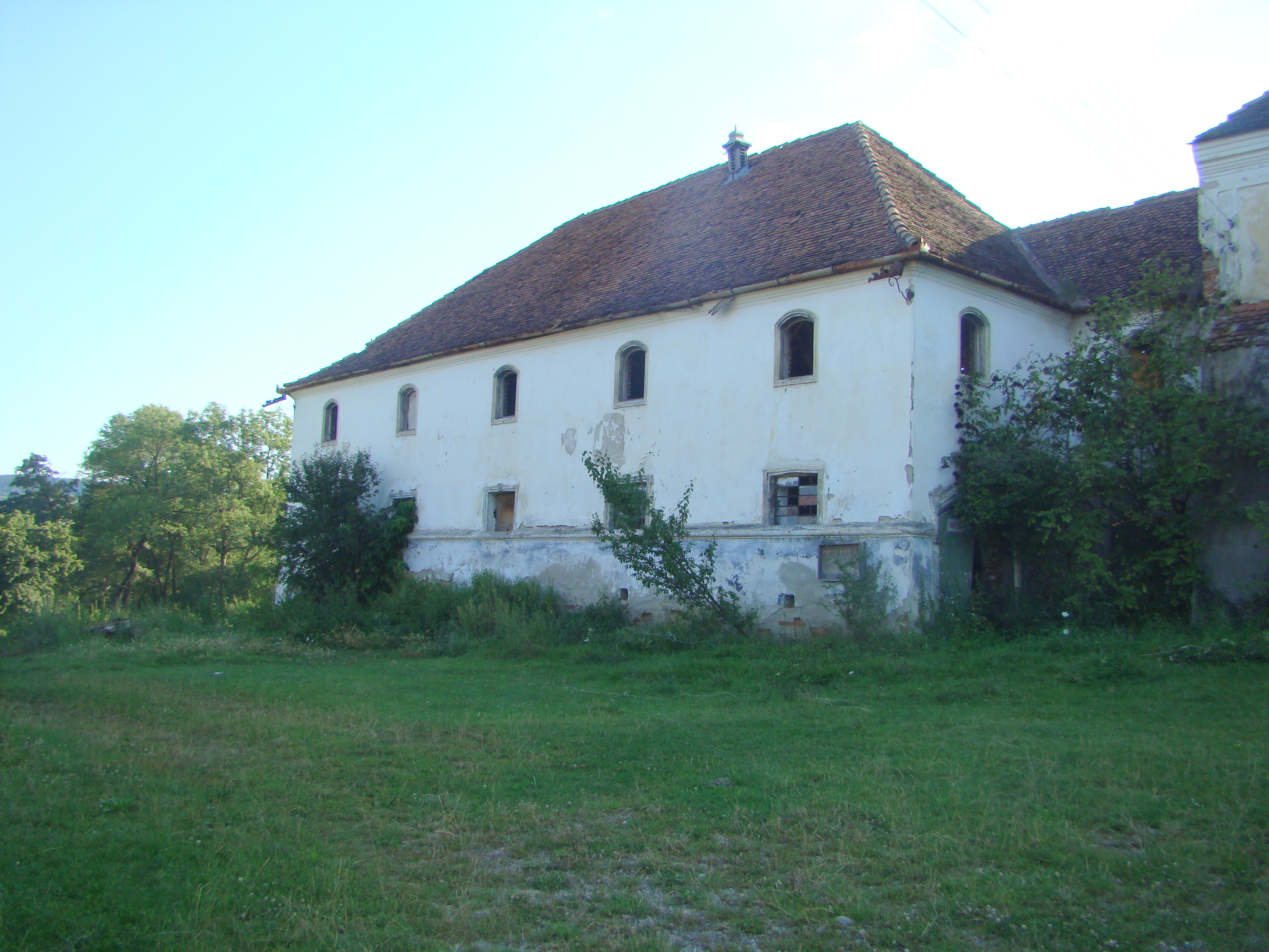 Teleki Castle in Posmuș, Bistrița-Năsăud county, Romania